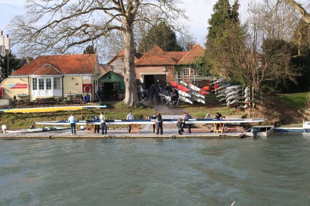 All together now The half a boat is now in one piece as the Wallingford rowing club members assemble the boat.